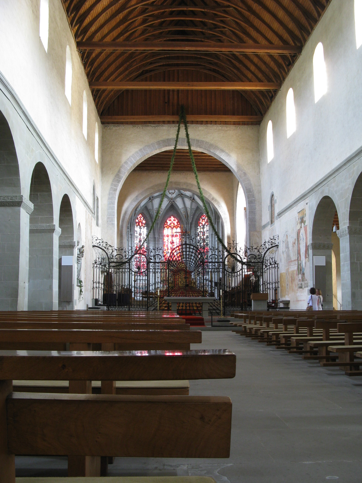 Church of the monastery of Reichenau, nave